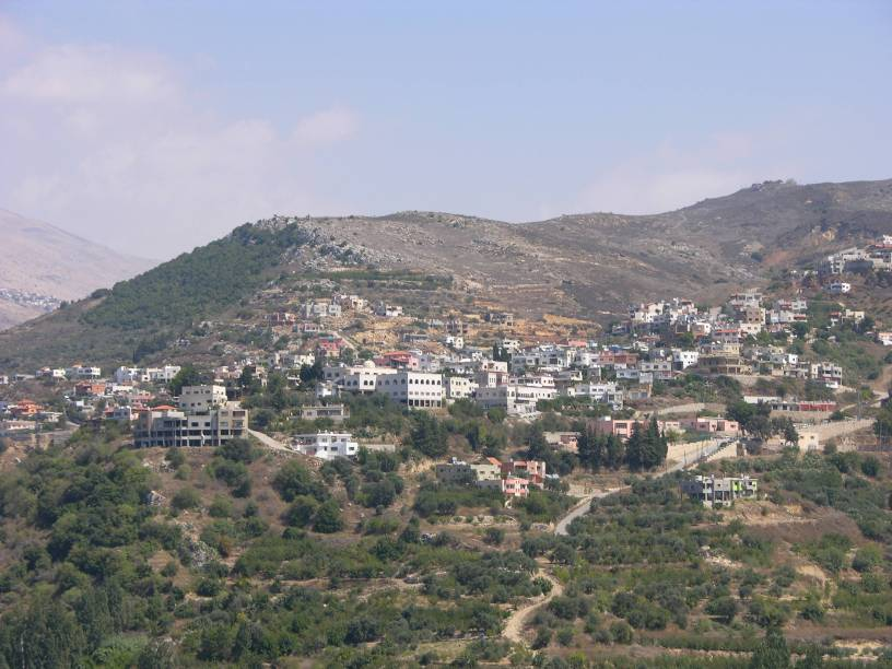 Ein Qiniyye, Golan Heights, seen from south west